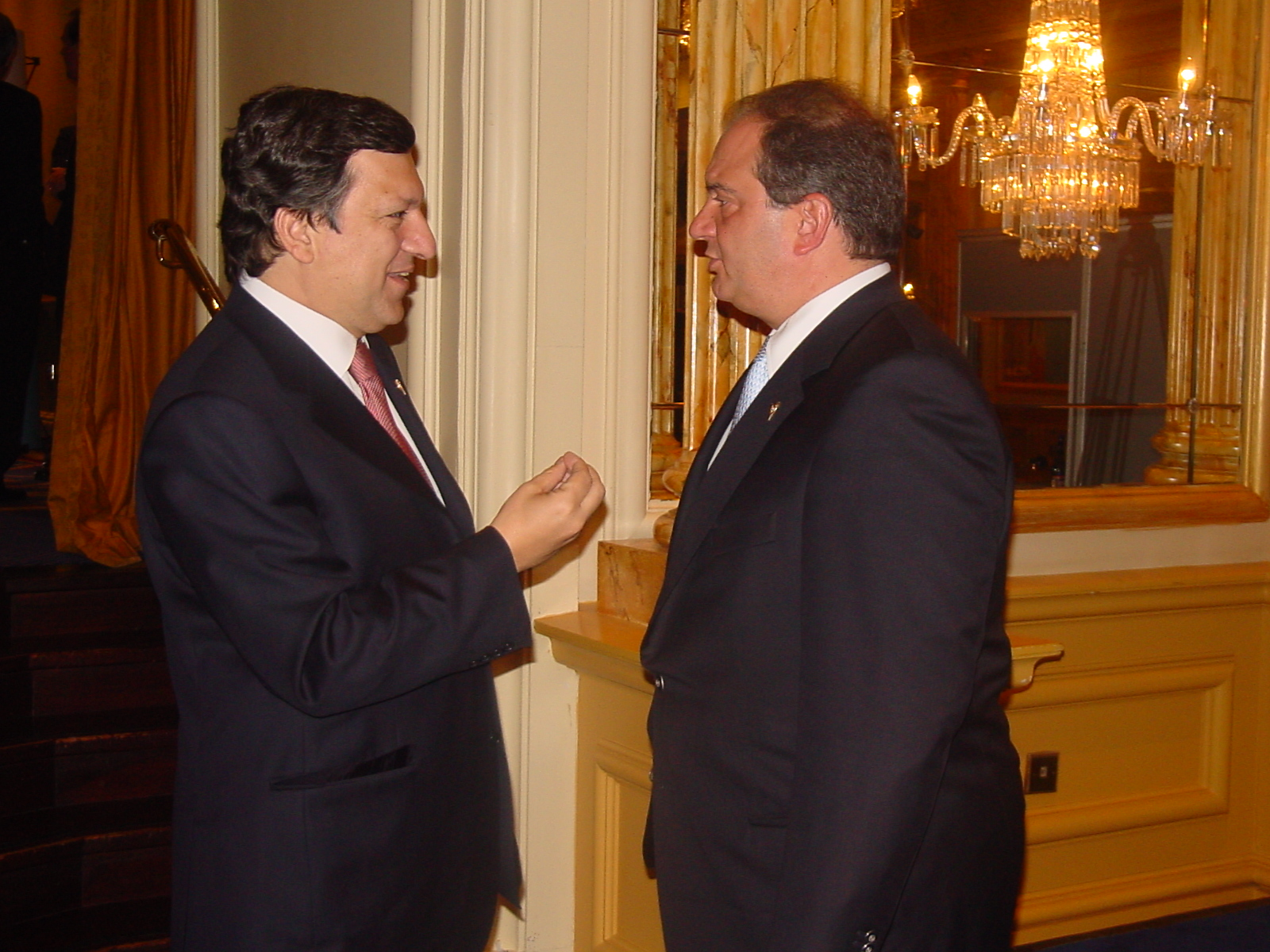 EPP Summit 1 May 2004 Dublin